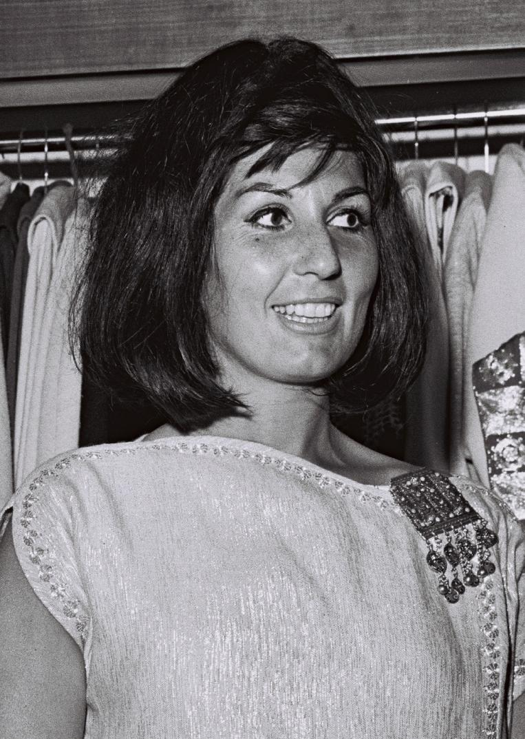 British TV star Alma Cogan at the Maskit Shop in Tel Aviv, 19 April 1963.